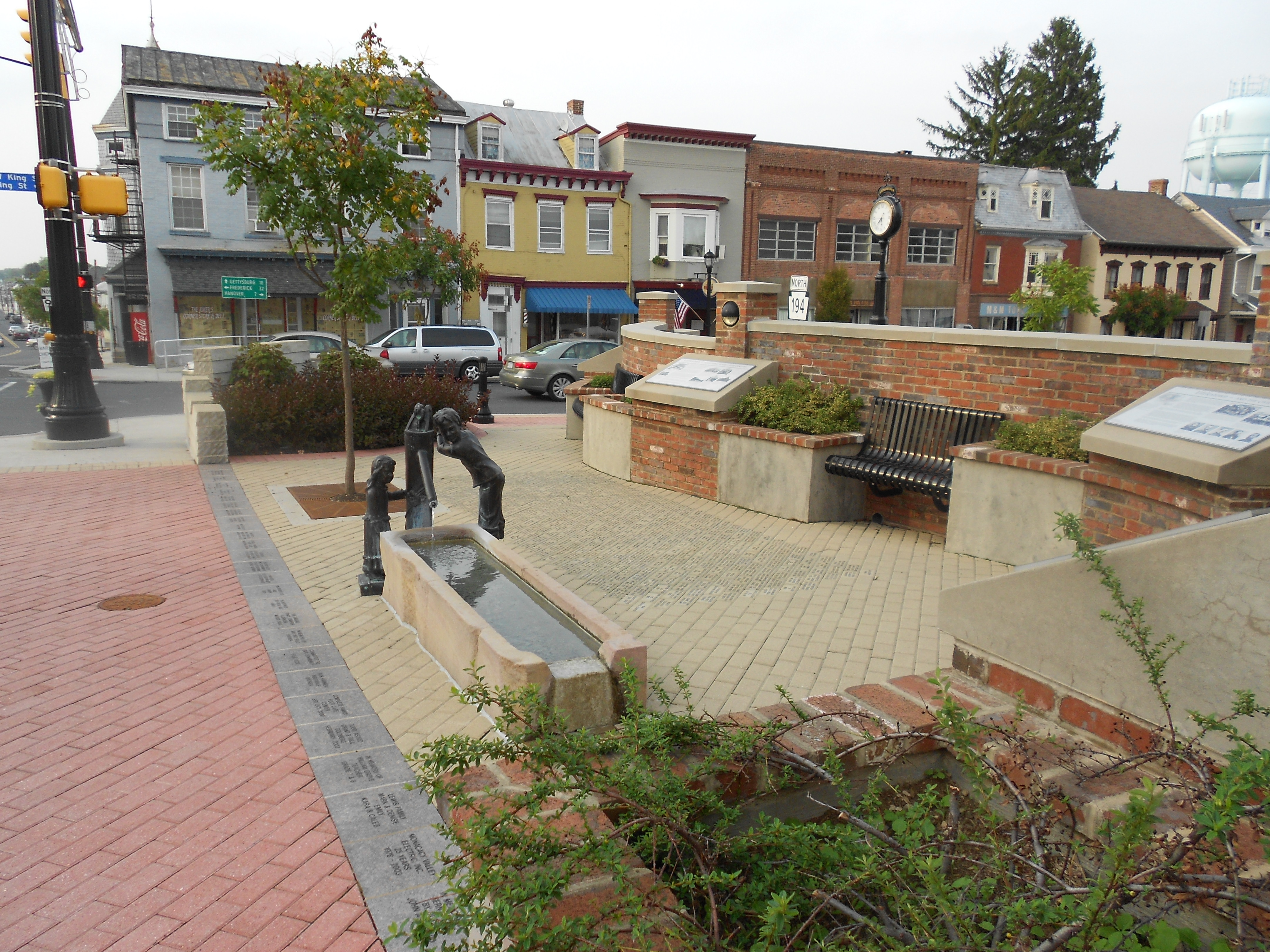 Overview of Littlestown History Plaza